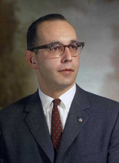 Representative Richard U. Chapin